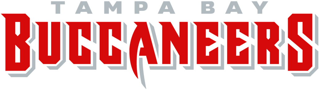 Tampa Bay Buccaneers script logo, 2014-present